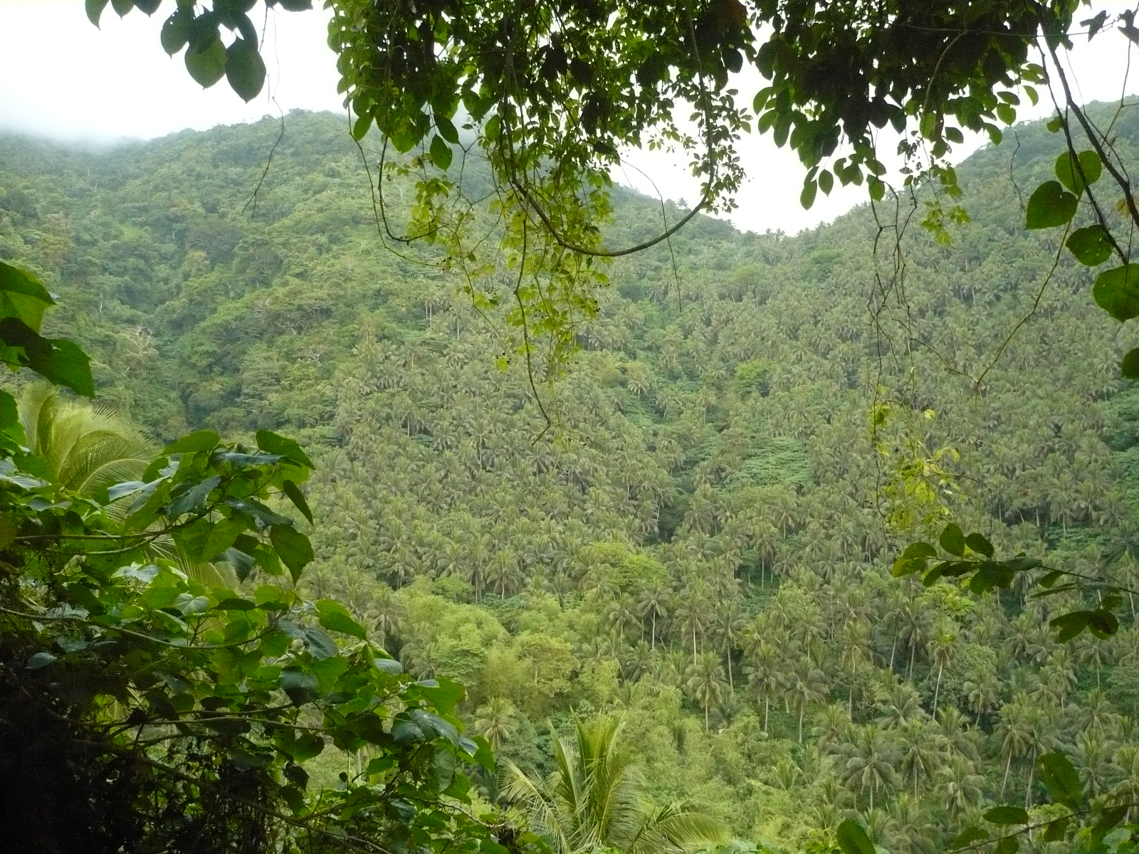 Bacoco is the earliest Bantoanon Settlement